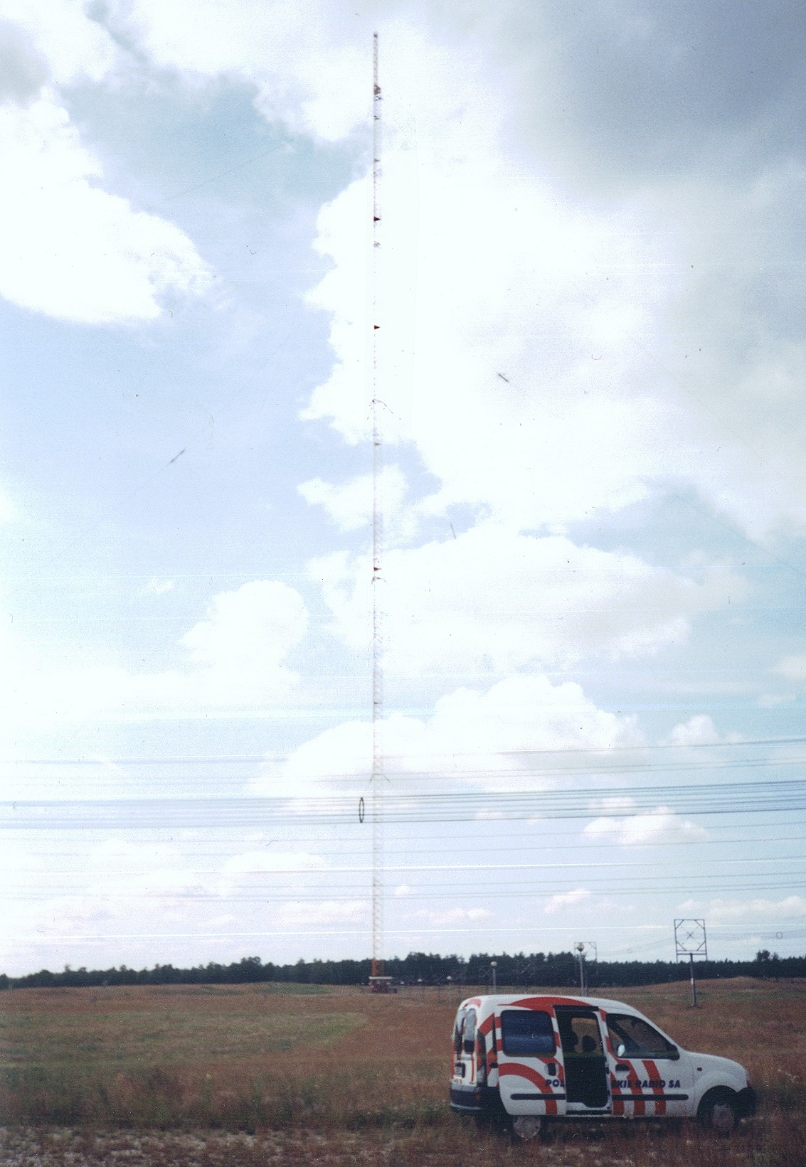 Solec Kujawski radio transmitter. 330 metre mast